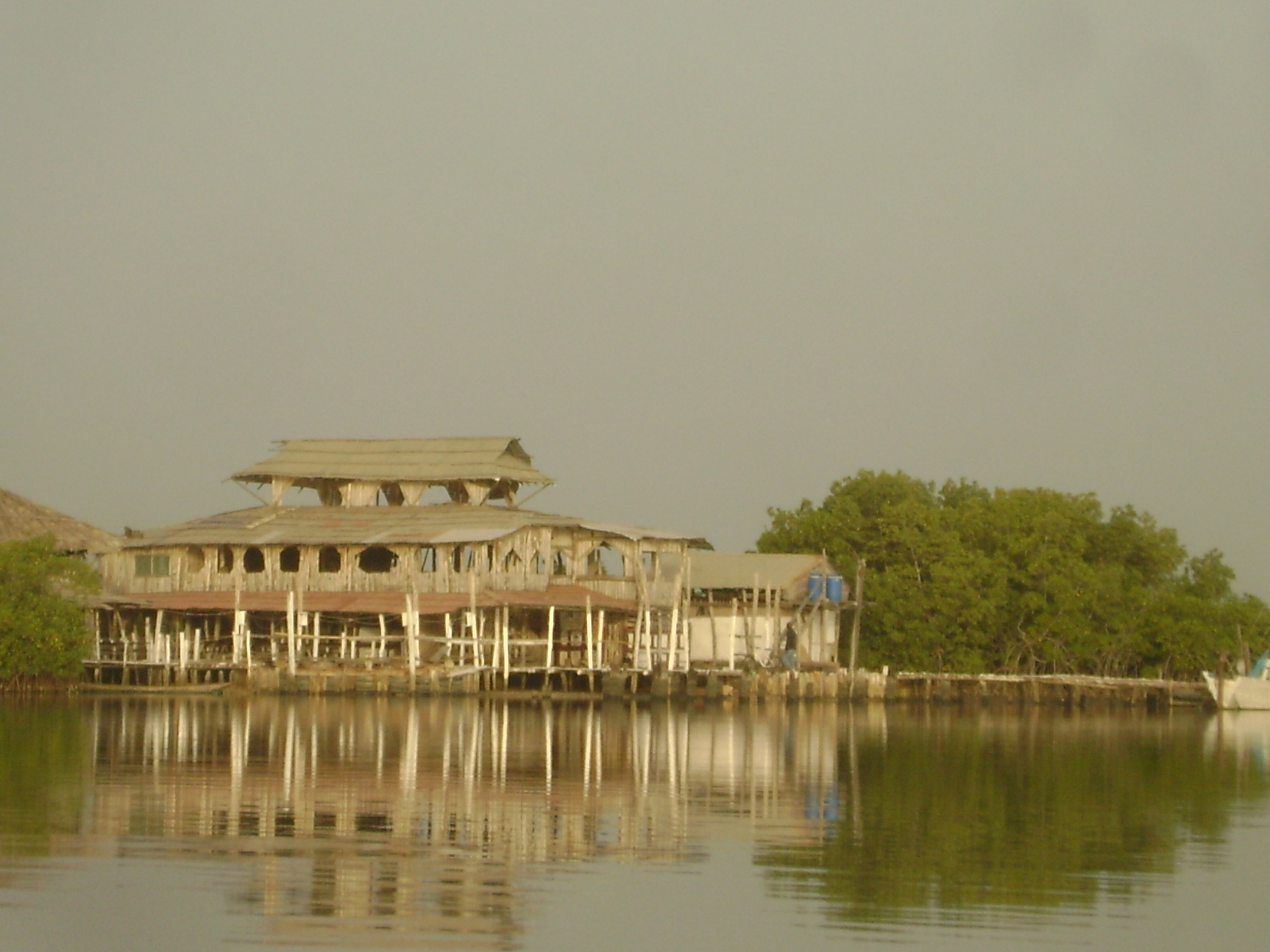 Lamin Lodge at sunrise, The Gambia (2011).